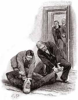 Sherlock Holmes in "The Adventure of the Reigate Squires", which appeared in The Strand Magazine in June, 1893. Original caption was "BENDING OVER THE PROSTRATE FIGURE OF SHERLOCK HOLMES."